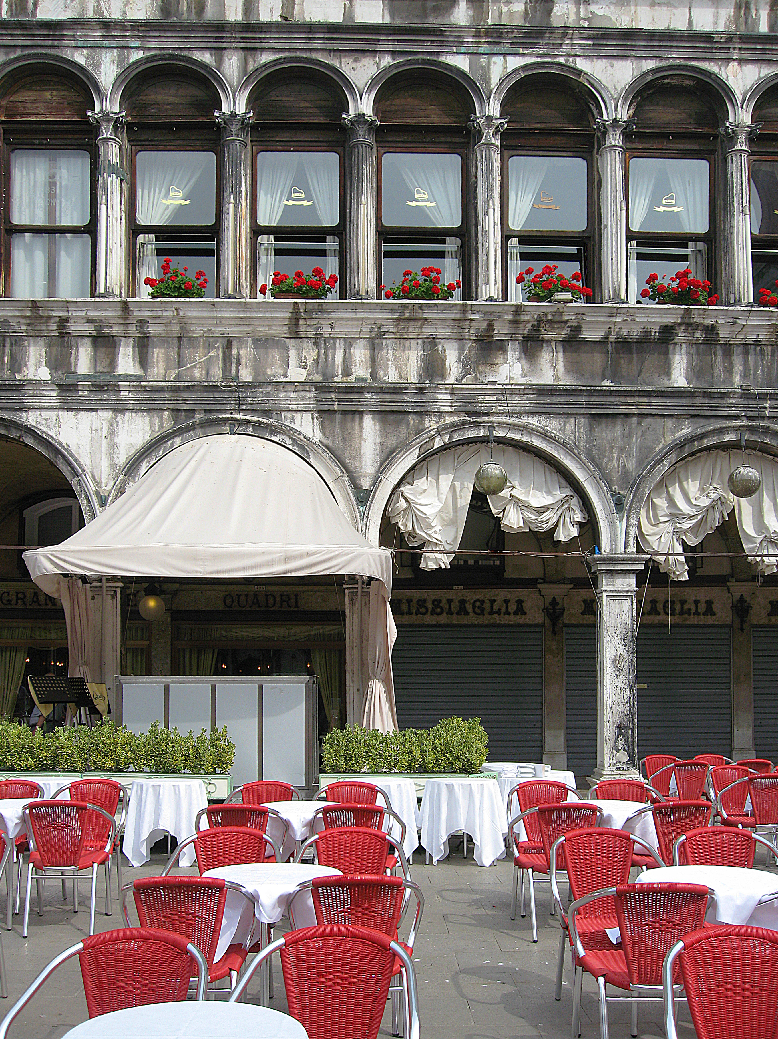 Caffe Quadri. Piazza San Marco (Venezia)